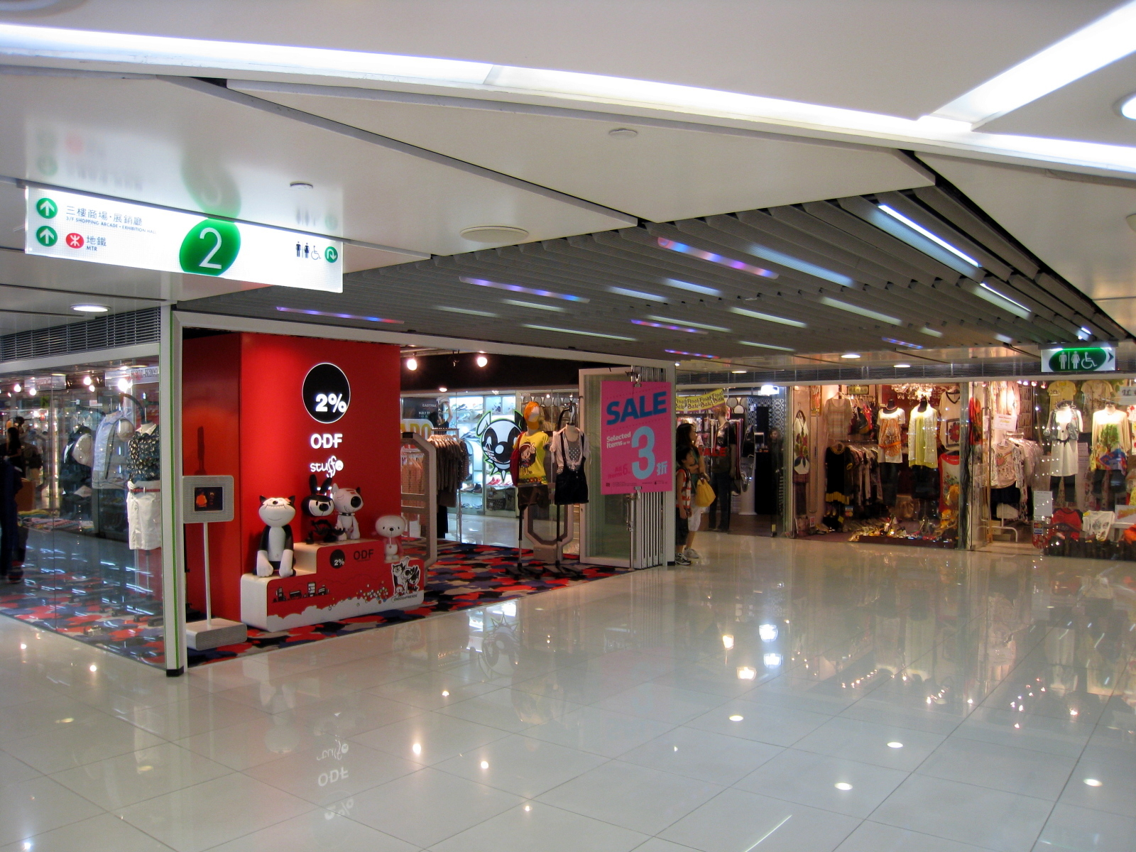 HK Pioneer Centre Level 2 Shops 始創中心